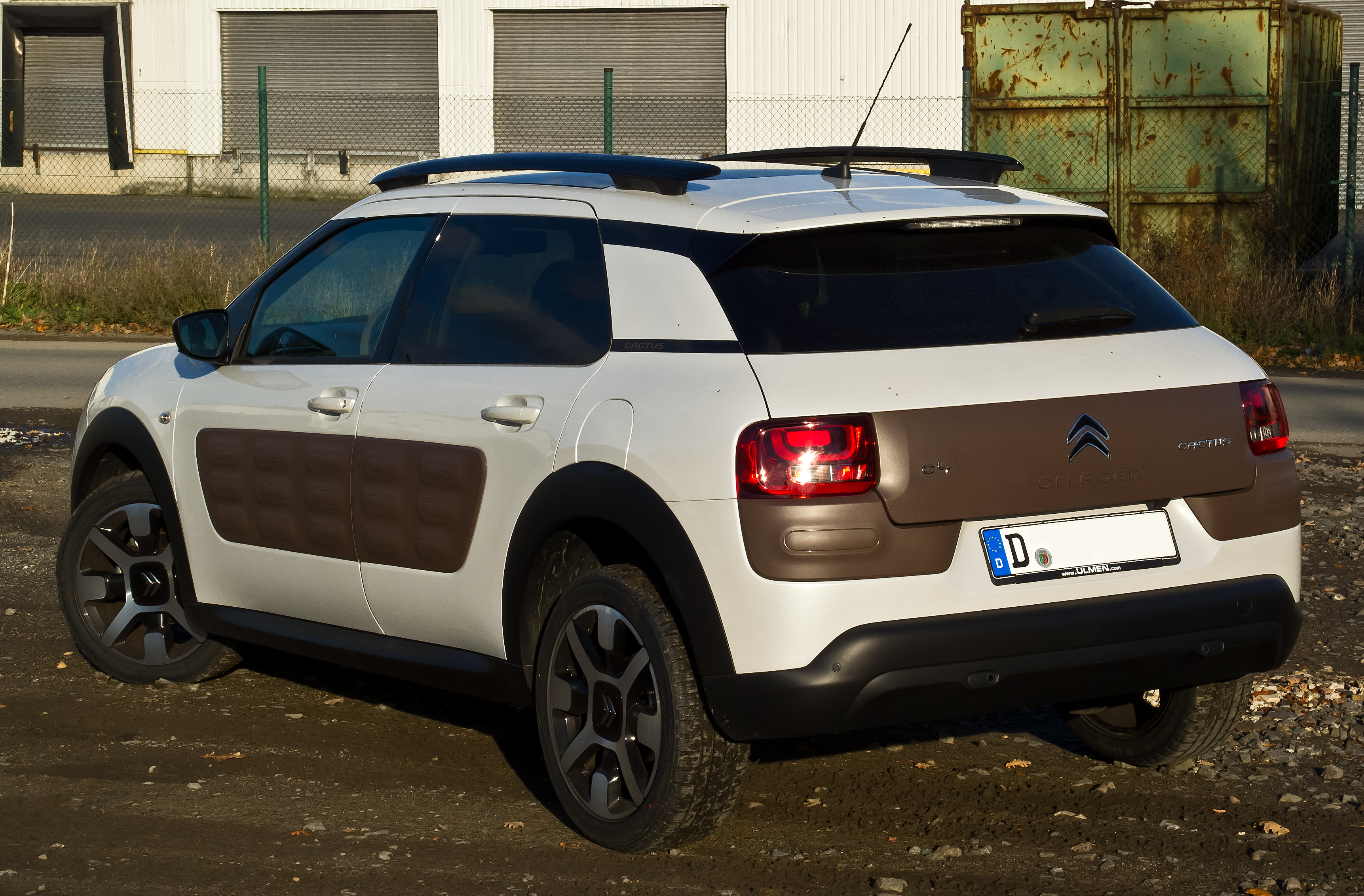 Citroën C4 Cactus BlueHDi 100 Shine Edition